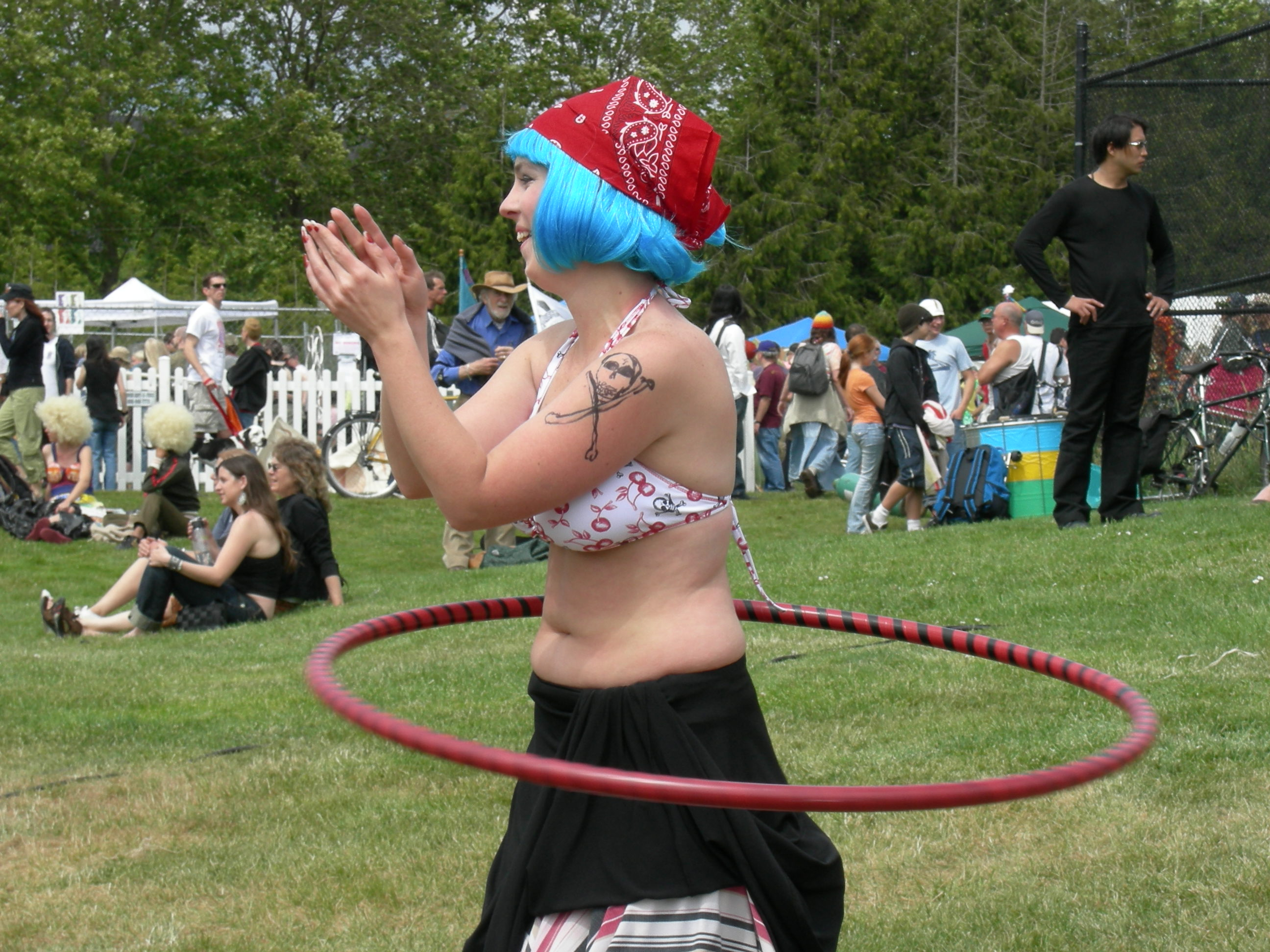 Hula hoops at Gas Works Park after the 2007 Summer Solstice Parade and Pageant, Fremont Fair, Seattle, Washington.